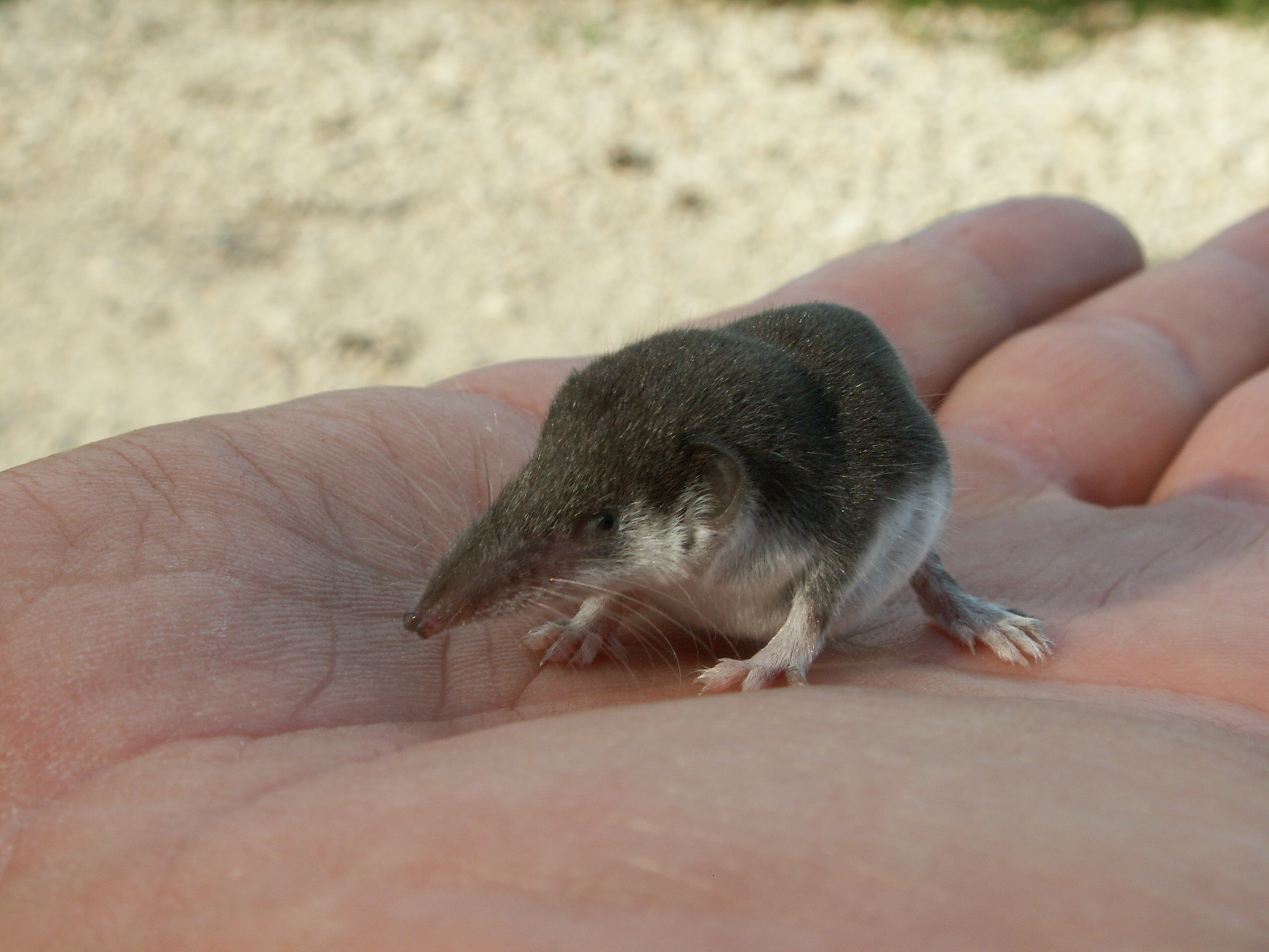 A Bicolored Shrew (Crocidura leucodon) on a human hand